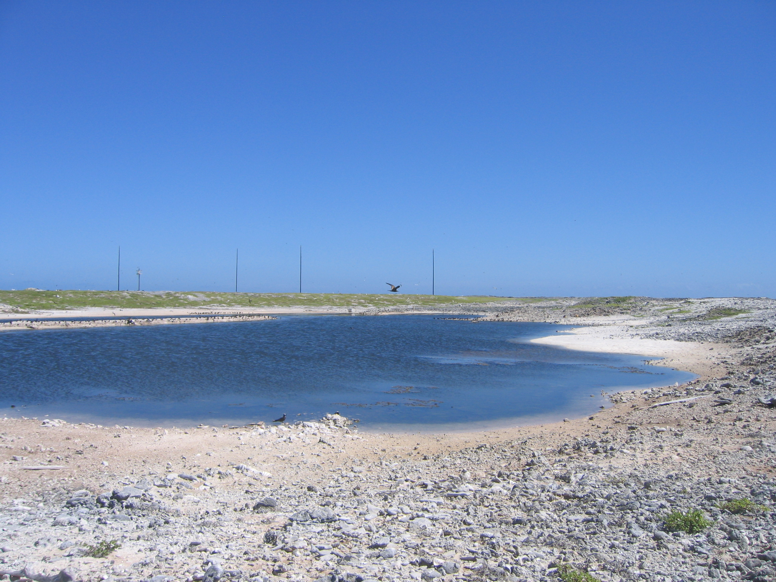 Lagoon of Baker Island, radio towers in the background